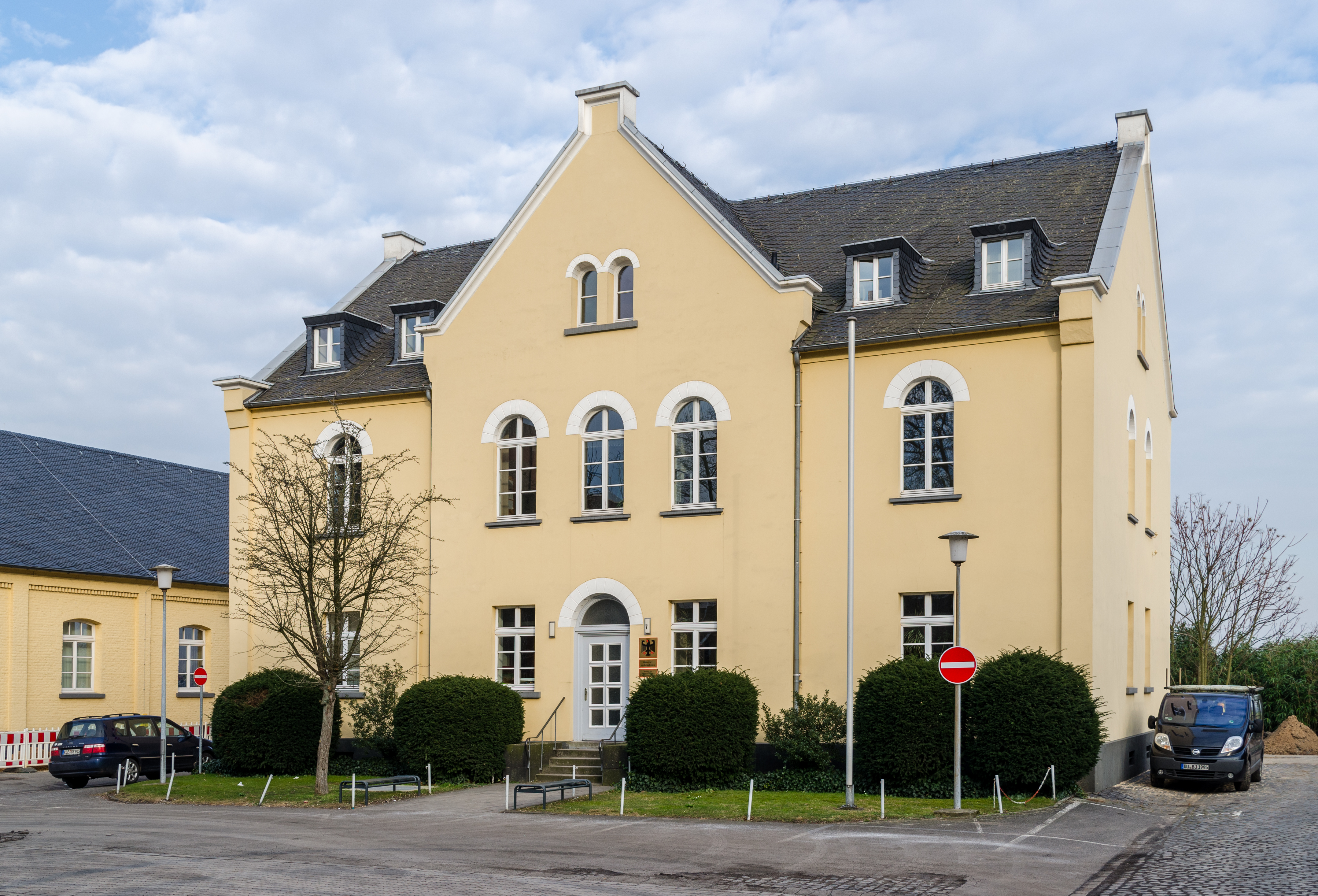 Krefeld (North Rhine-Westphalia, Germany) – district Uerdingen – customhouse